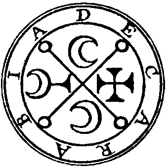 Sigils of Decarabia, The lesser key of Solomon, Goetia(1916)